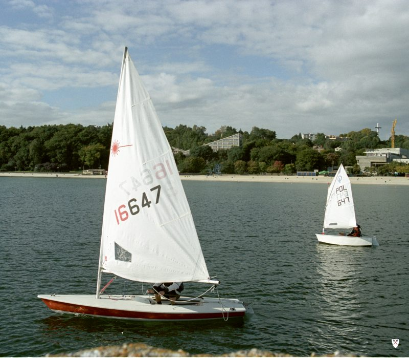 Sailboat class Laser Optimist